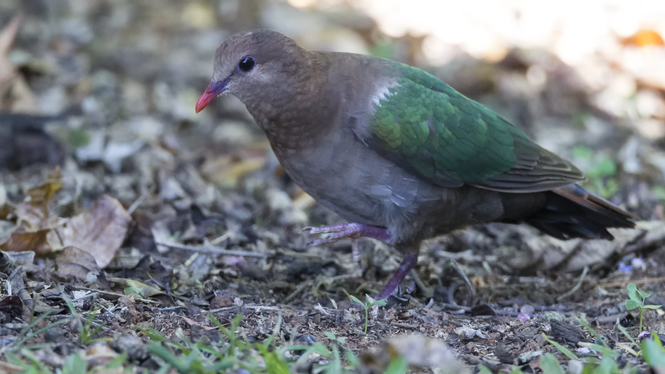 Pacific Emerald Dove Chalcophaps longirostris, Malanda, Atherton Tableland, Queensland, Australia. A shade dweller, they dont often come into the light.